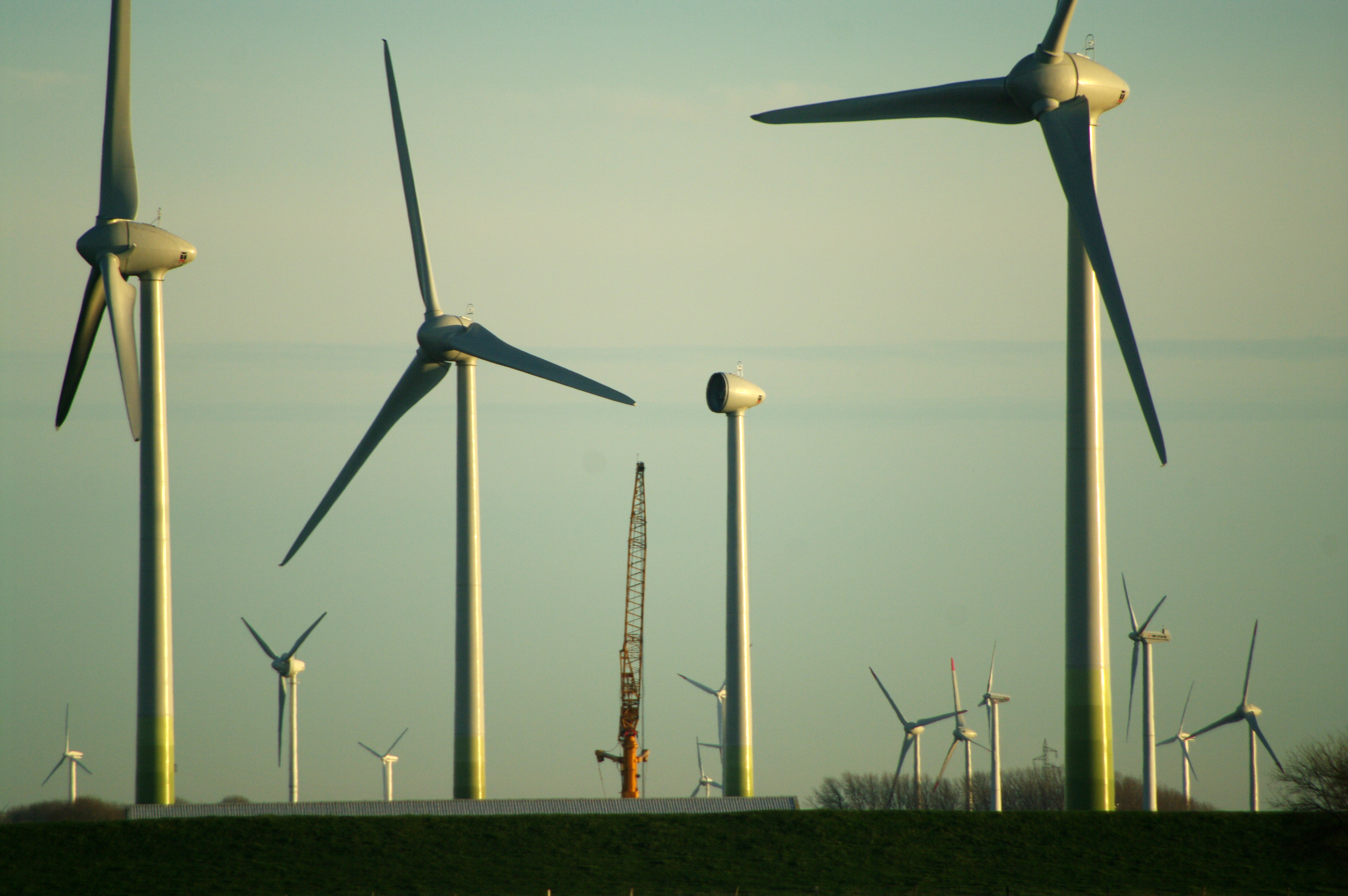 New wind turbines in Hellschen-Heringsand-Unterschaar